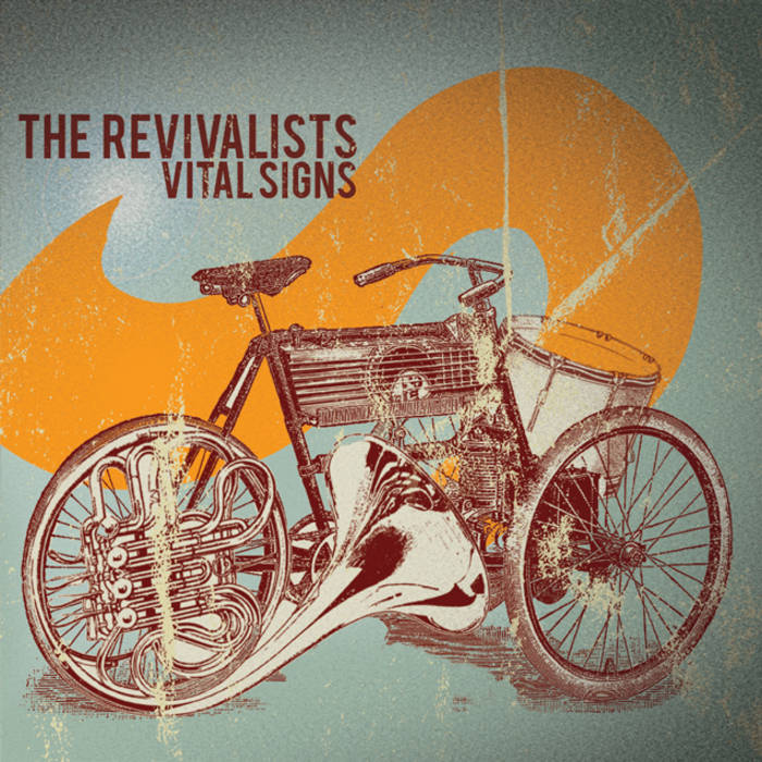 Vital Signs